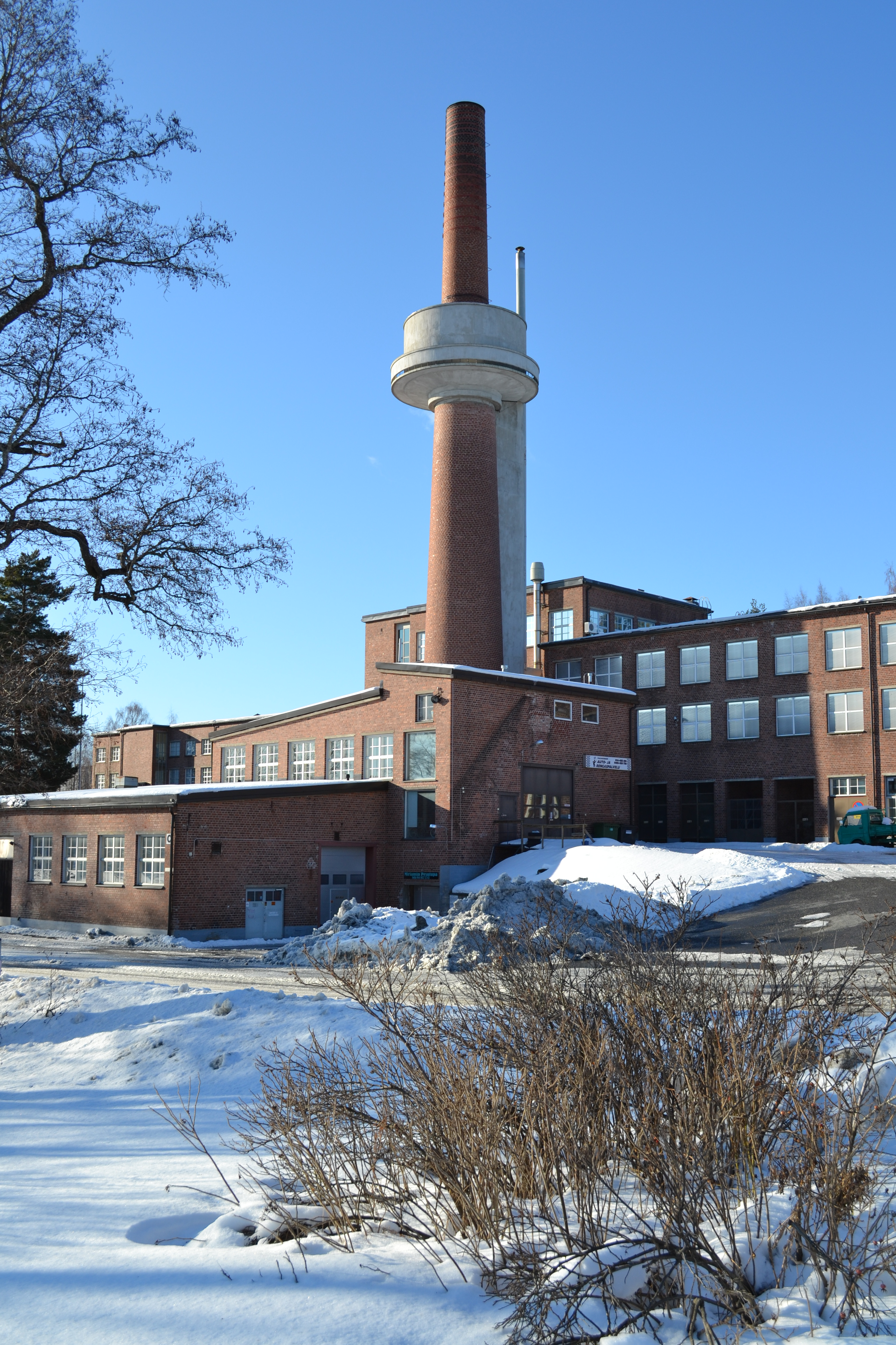 The former nail factory of Vaajakoski, now called Vaajakoski Industrial House